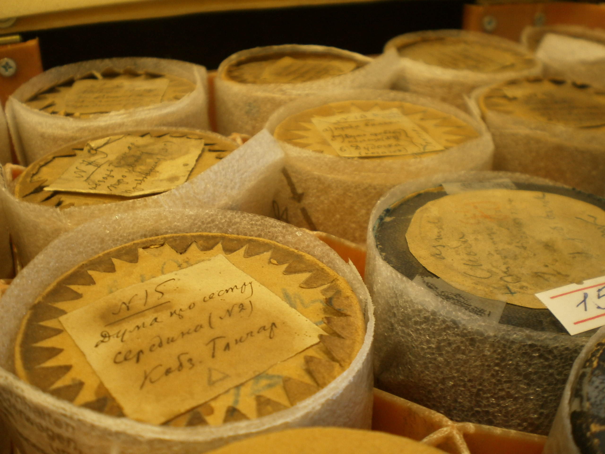 Phonograph cylinders from Filaret Kolessa collection